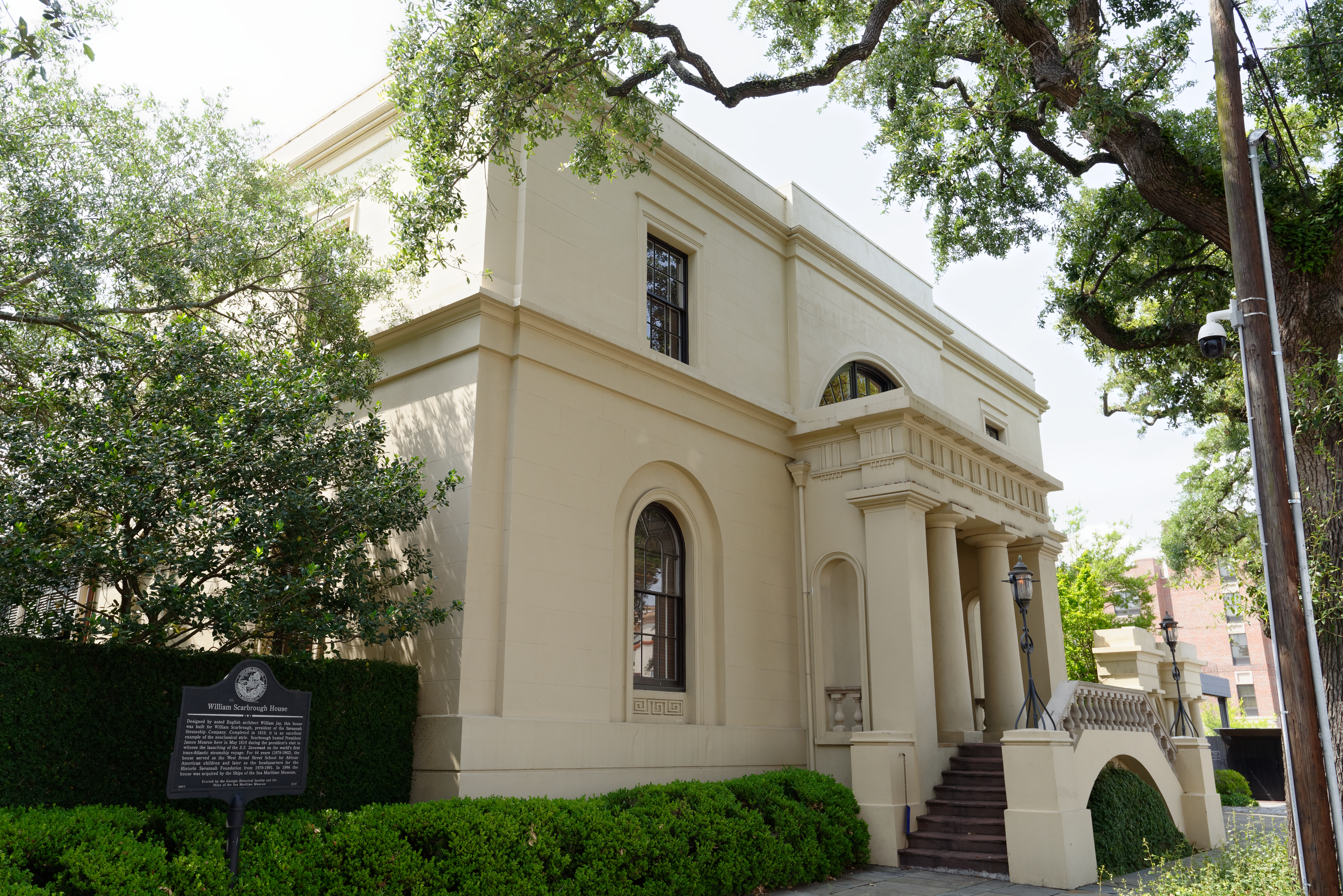 The William Scarbourgh house in Savannah, Georgia, US, 4 MLK. Part of the NRHP's Savannah Historic District and on the MRHP itself.